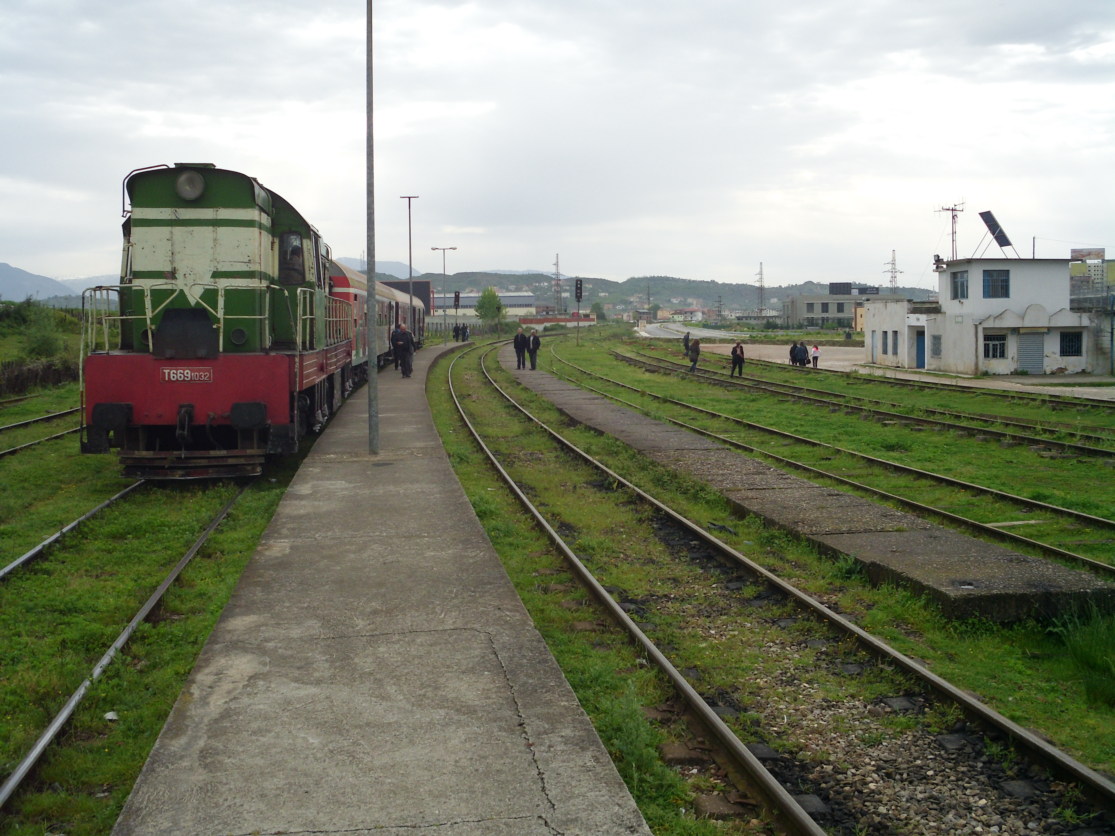 Passenger train of Albanian Railways, running from Shkodër to Durrës, at the station of Vorë, a suburb of Tirana.